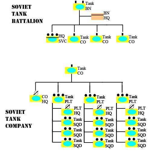 Order of battle graphic for a 1980s Soviet Tank Battalion and Company